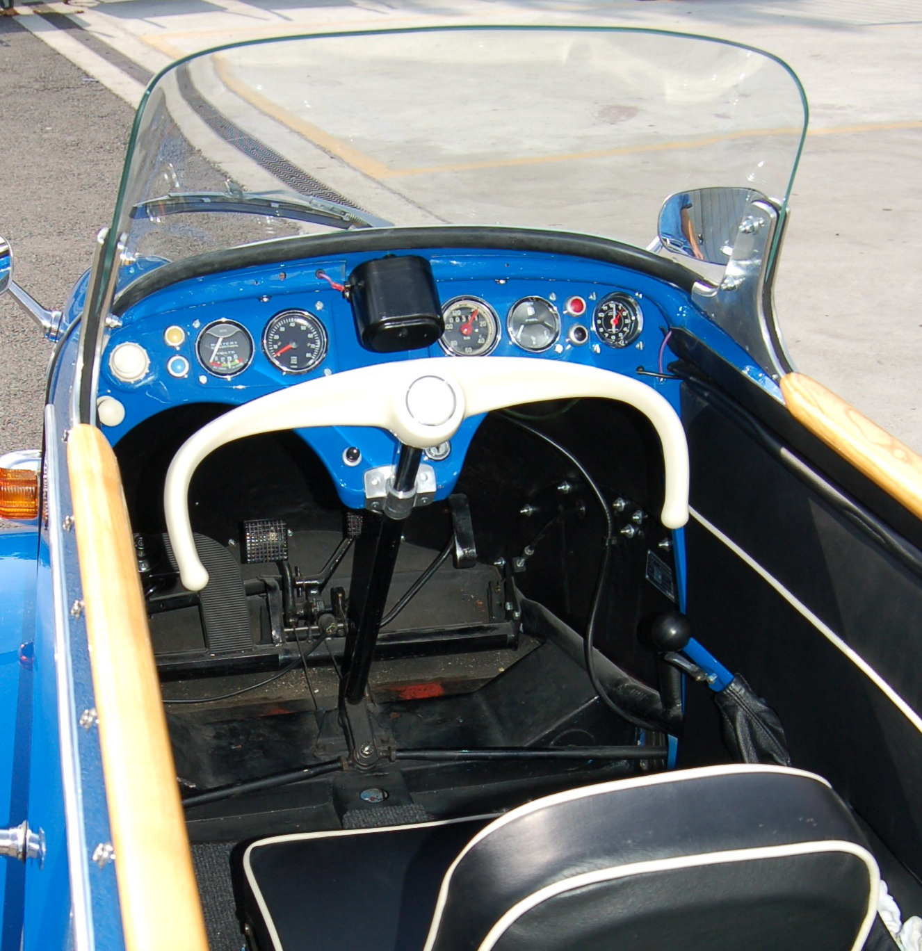 Closeup of Image:Messerschmitt Geneva 762.JPG , showing details of instruments and controls.